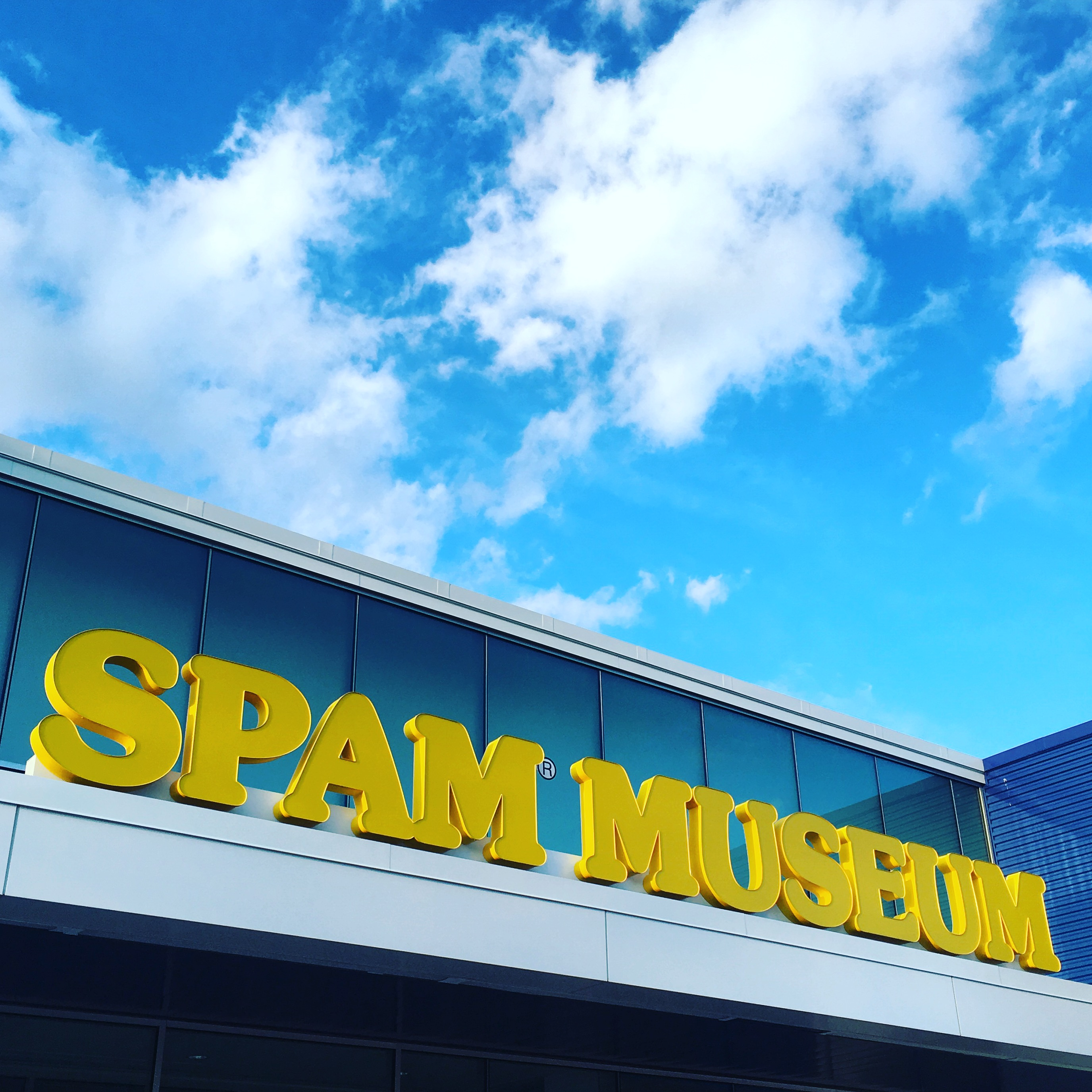 Facade of new Spam Museum (opening 2016)